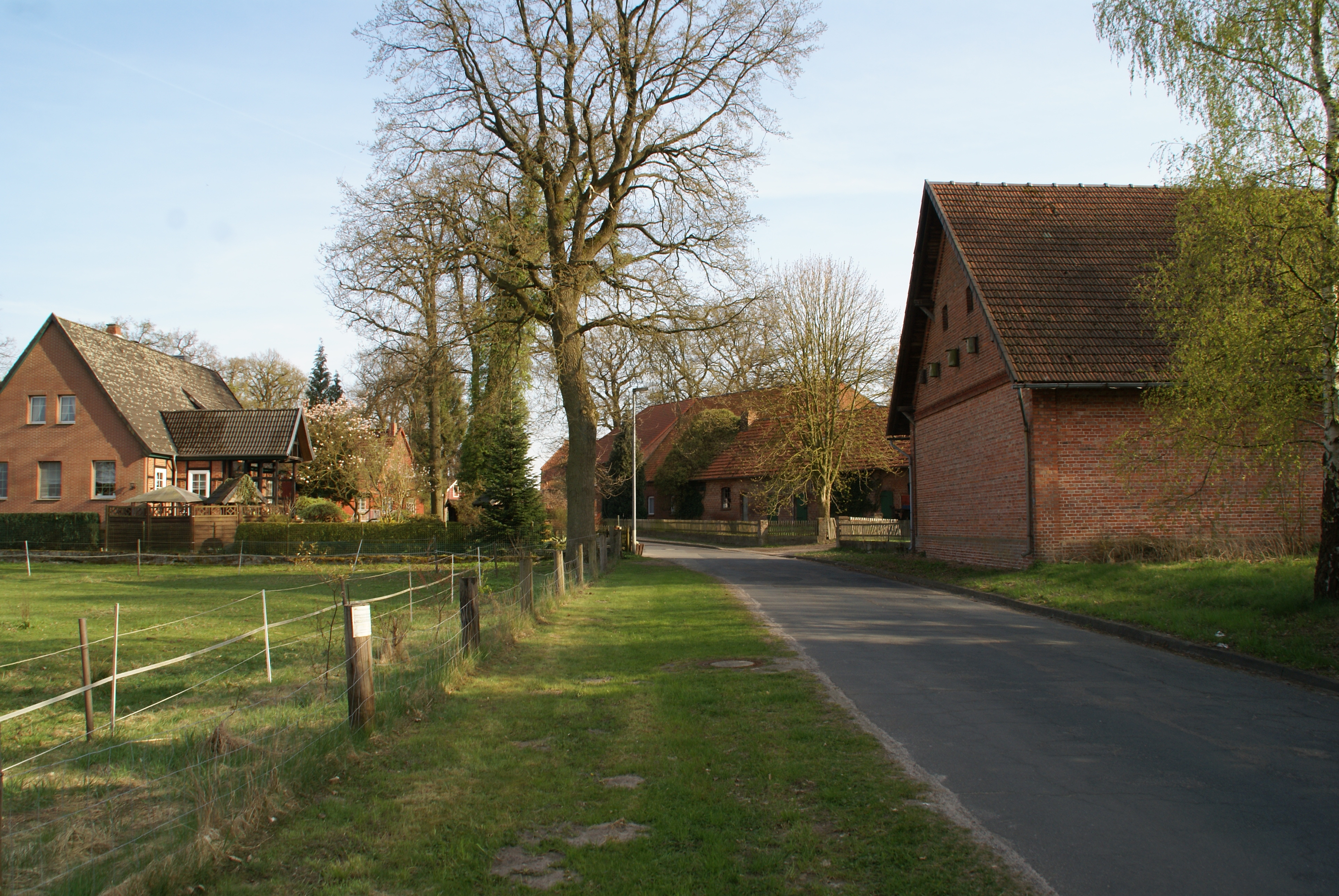 Belsen (Bergen) (Germany): Farms in the Im alten Dorf Street